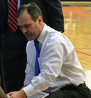 Pat Duquette, head coach of the UMass Lowell River Hawks, huddles with players and draws up a play.